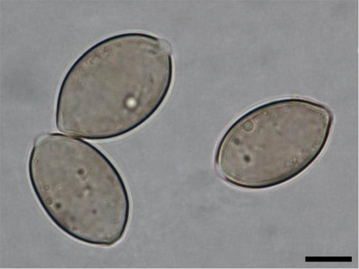 Pseudoperonospora cubensis sporangia, scalebar is 10 micrometer